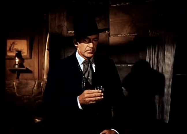 Gary Cooper in the film trailer for The Hanging Tree, 1959